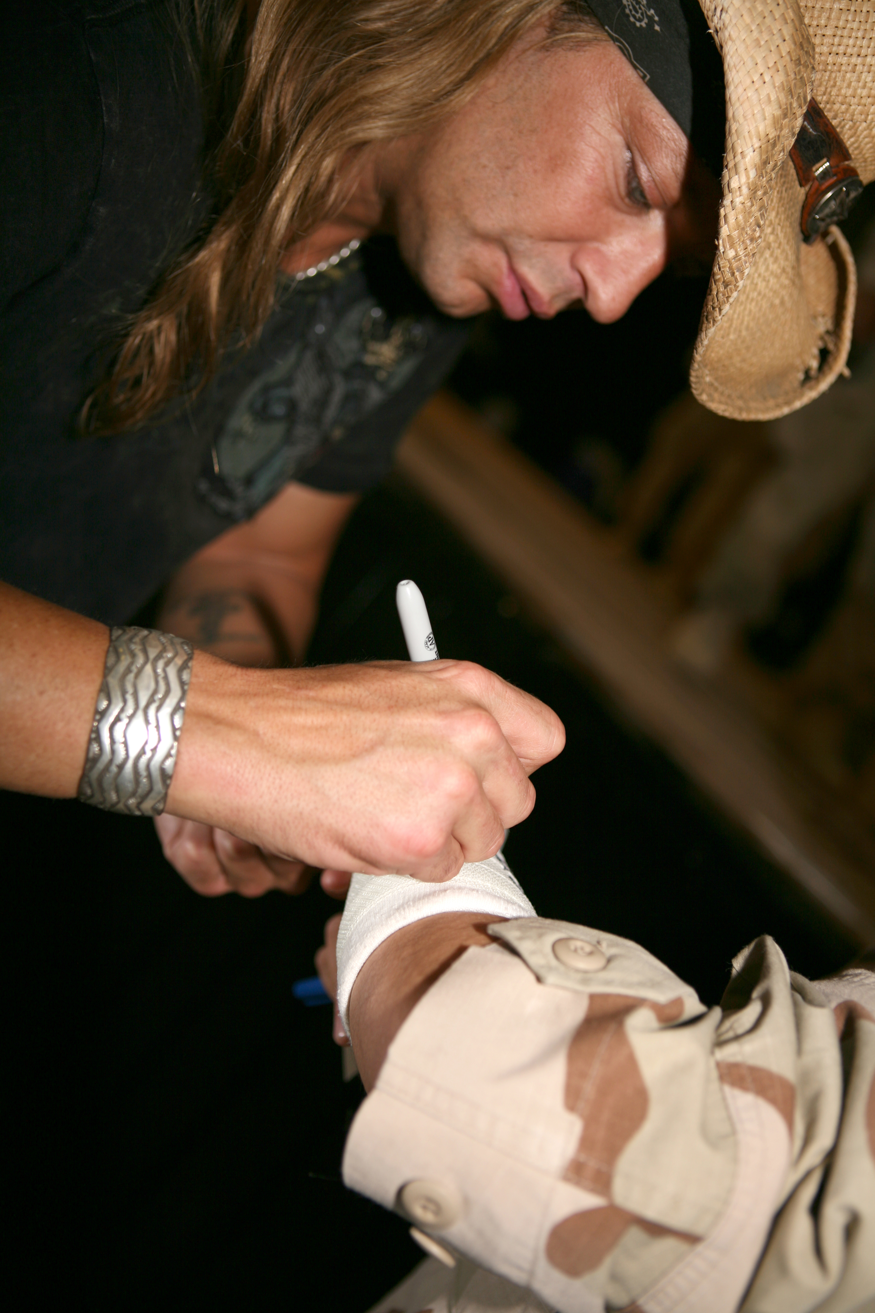 Bret Michaels lead, singer of the rock and roll band Poison, recently paid a visit to troops in Iraq where he put on a concert and visited with the troops. Michaels also spent time after the show to take photos with the troops as well as sign autographs, he signed everything from guitars to casts.